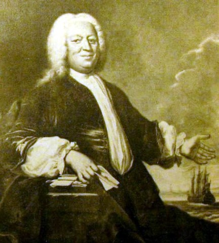 Painting of the Danish merchant Michael Fabritius